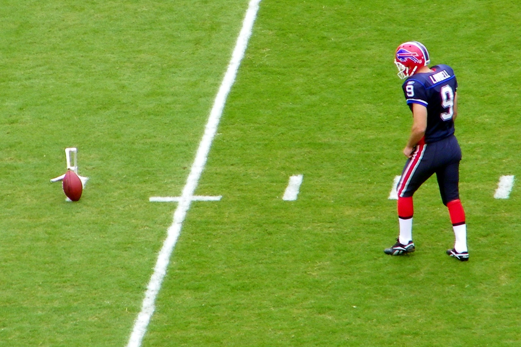 Before Buffalo at Miami game. Sun Life Stadium, 19 December 2010. Lindell is the Bills field goal kicker. His first half field goal was the difference in the Bills 17-14 win.